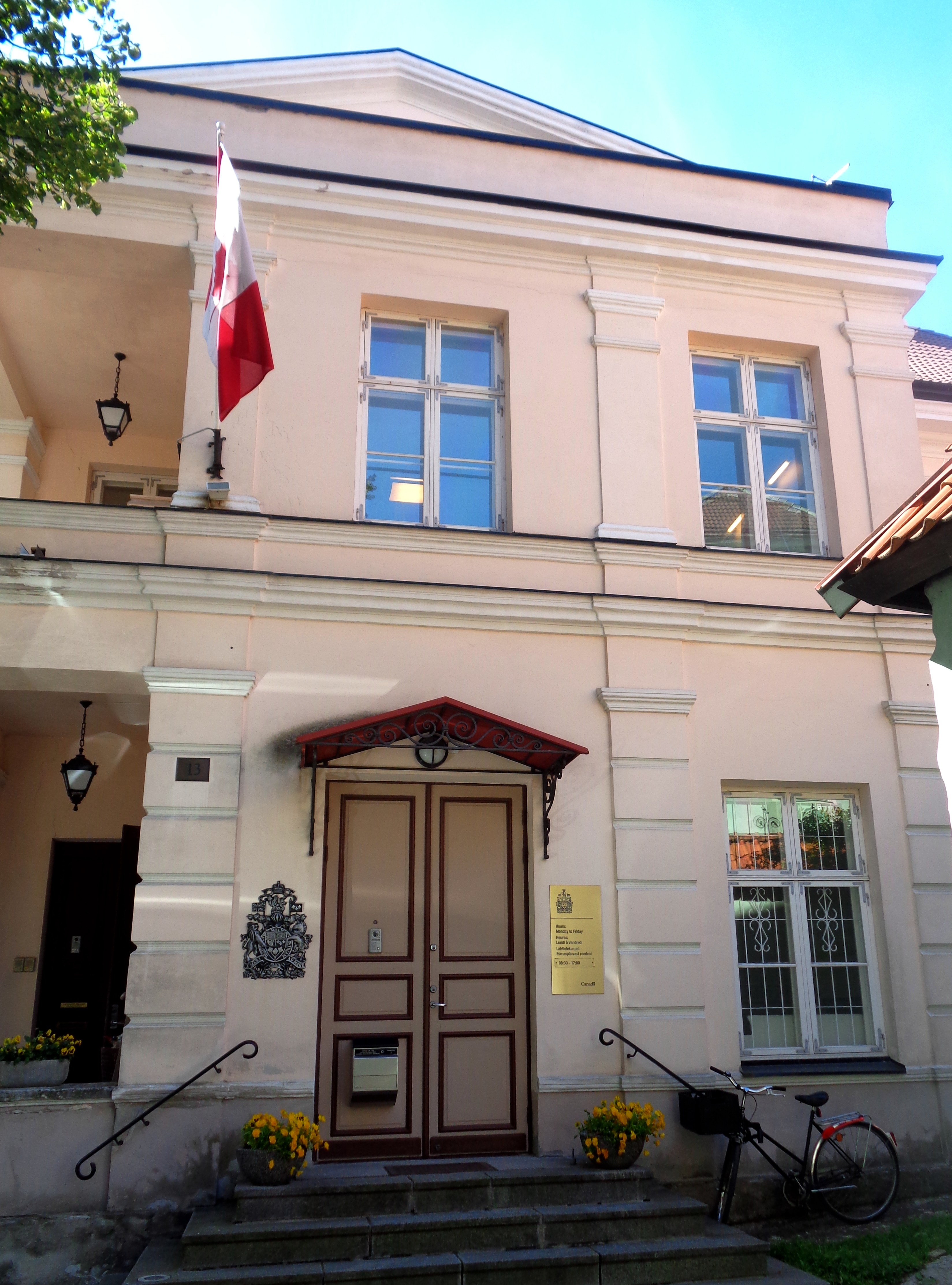 Tallinn Representation of the Canadian Embassy Office in Riga